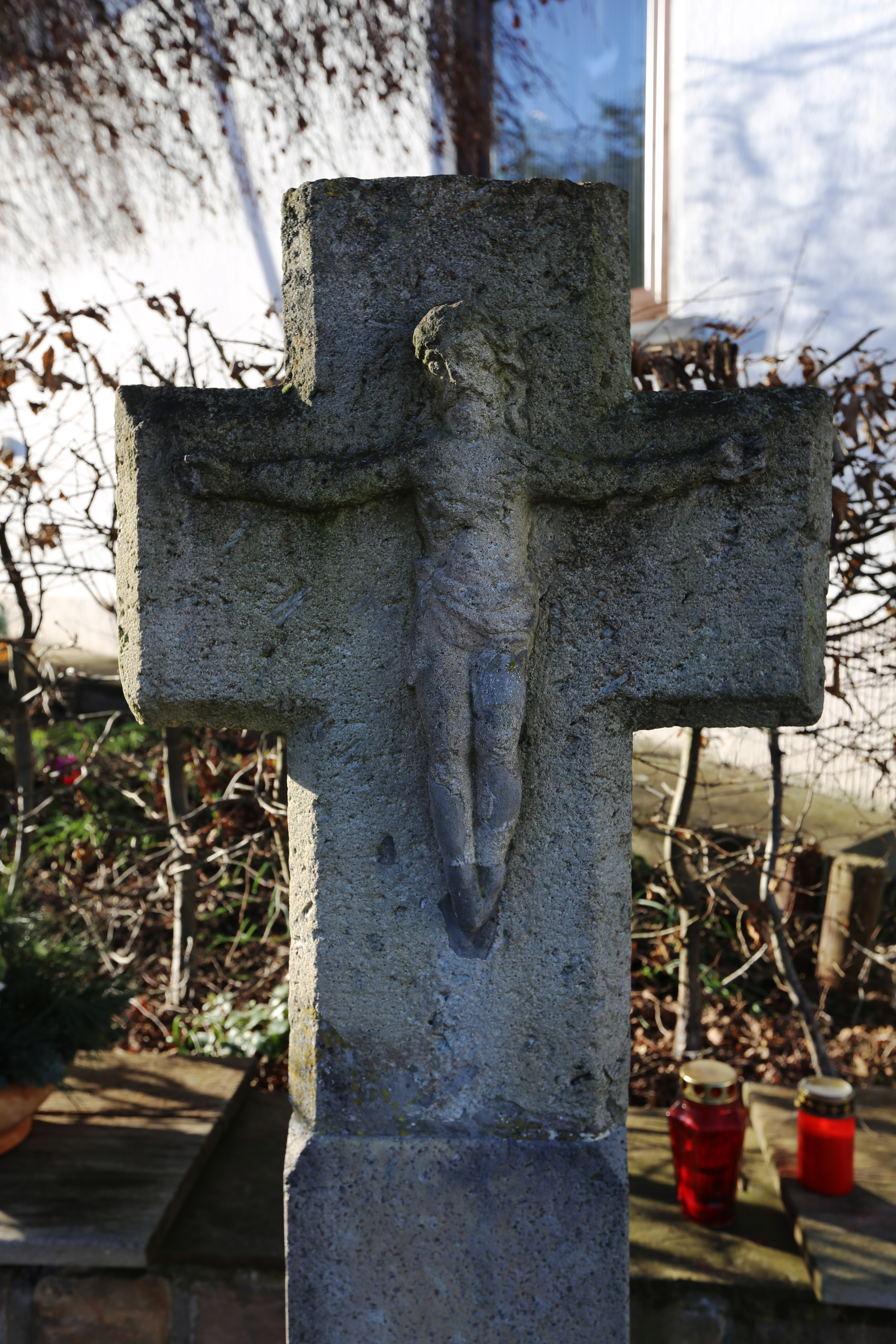 Christian wayside shrine landmark in Rösberg (Bornheim), Nordrhein-Westfalen, Germany